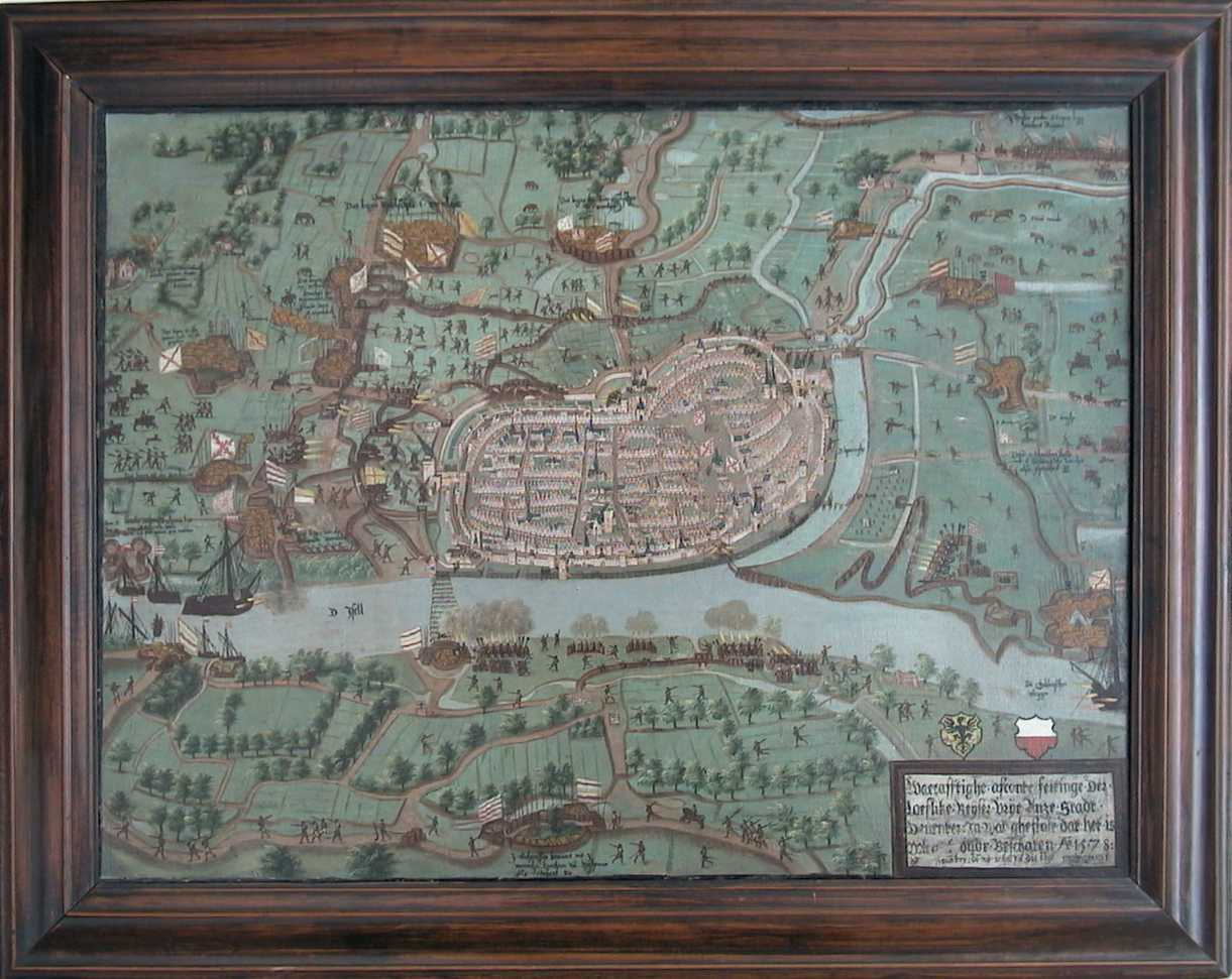 Deventer 1578